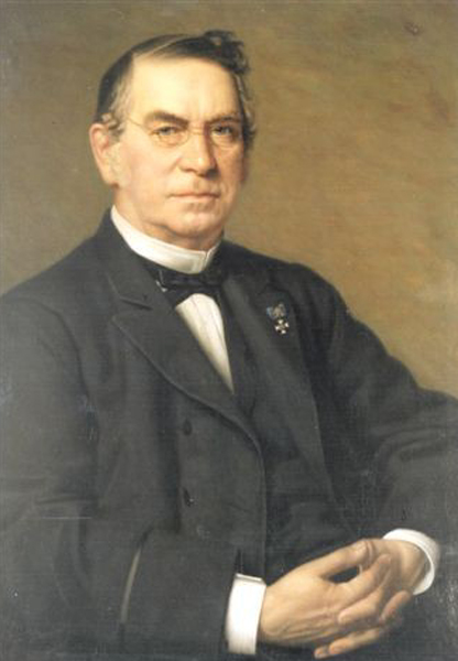 Carl Leverkus (1804-1889). Painted in 1888 by Heinrich Johann Sinkel (1835-1908). From Stadtarchiv Leverkusen (City Archives Leverkusen).